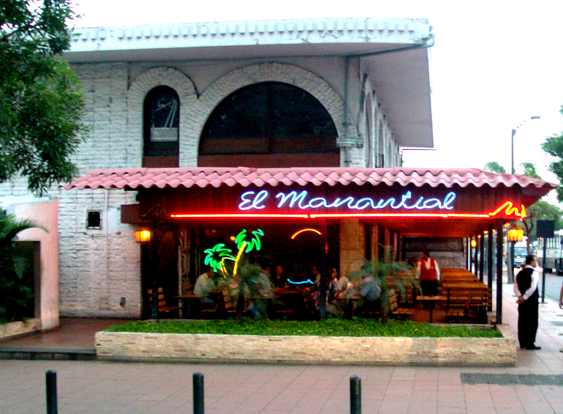 Bar El Manantial in Urdesa, traditional bar in Guayaquil